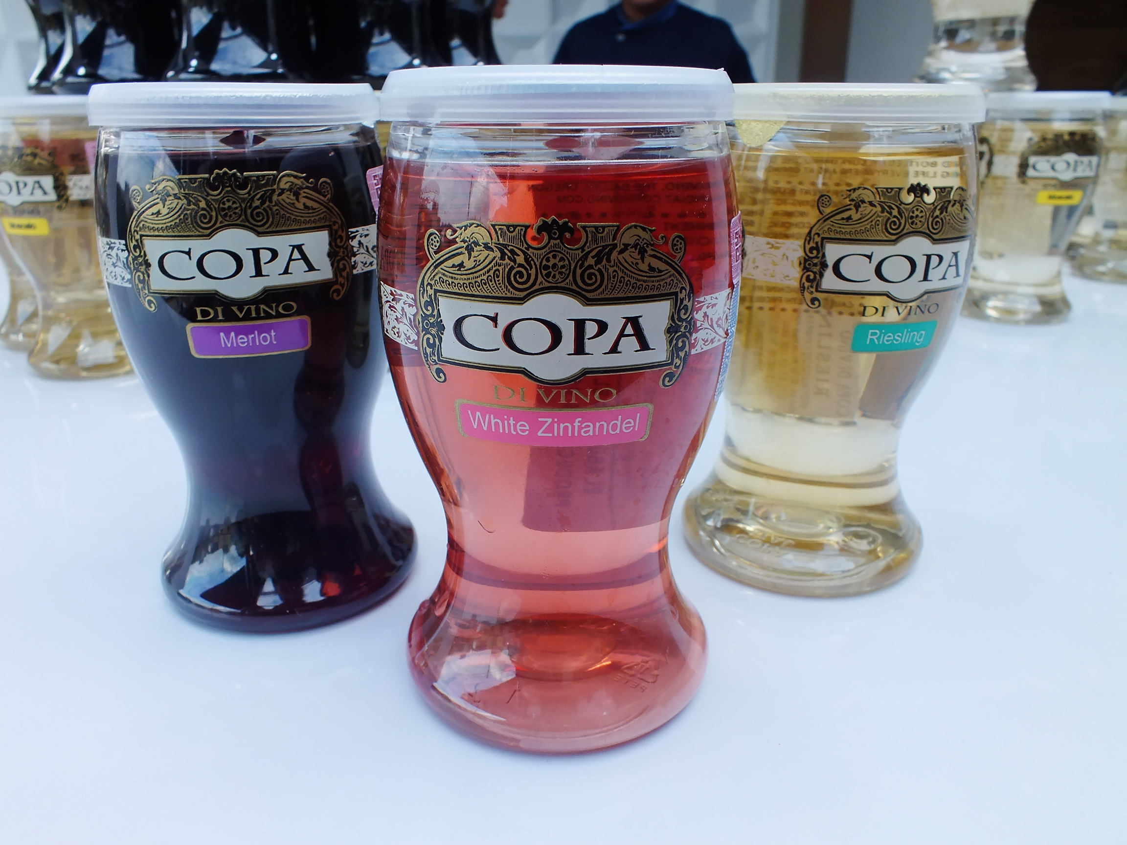 Copa Di Vino